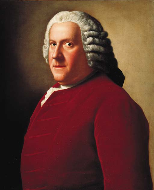 Portrait of Willem Bentinck, 1st Count Bentinck (1704-1774), half-length, in a red velvet coat and white lace cravat